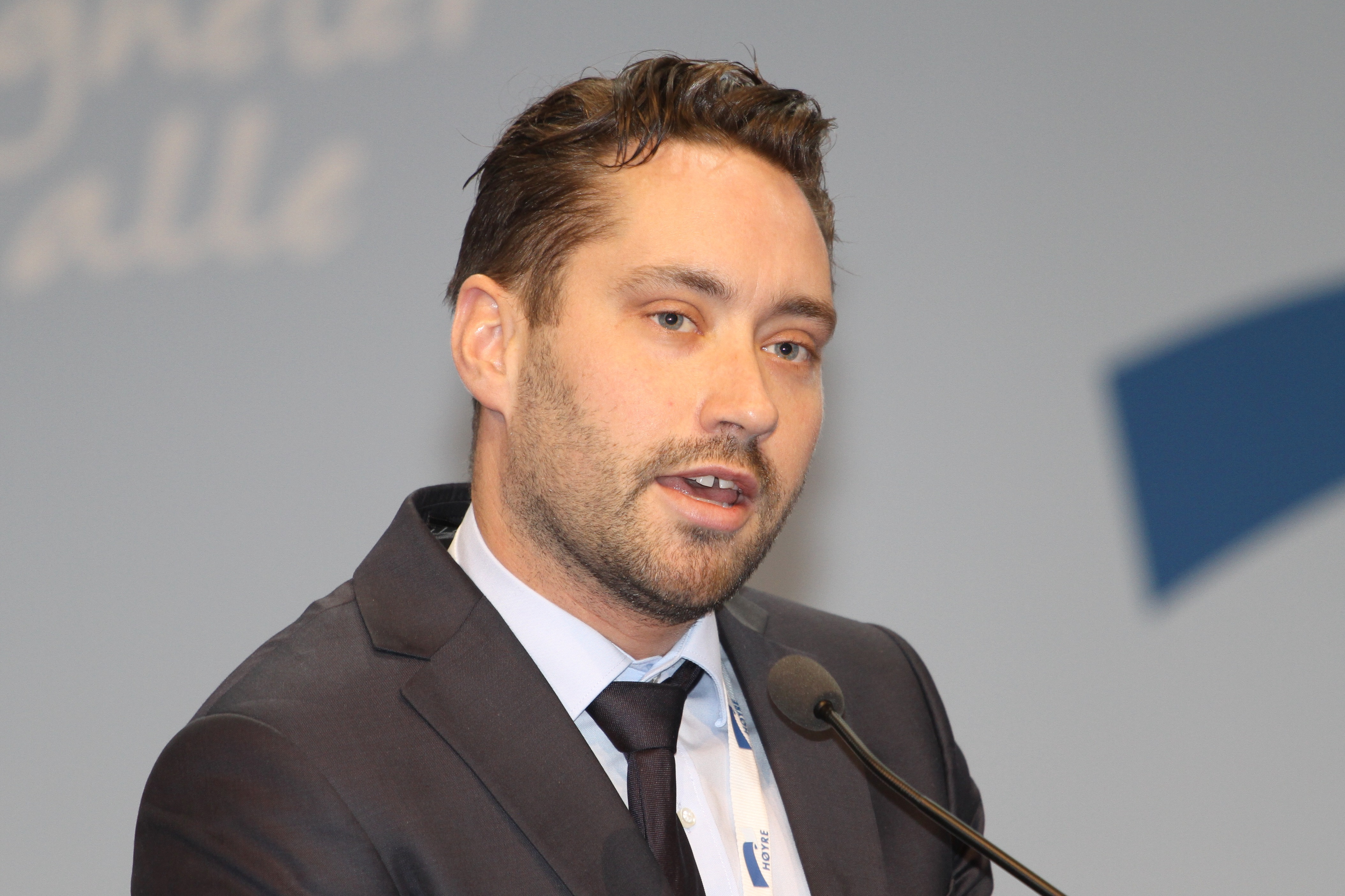 Peder Sjo Slettebø